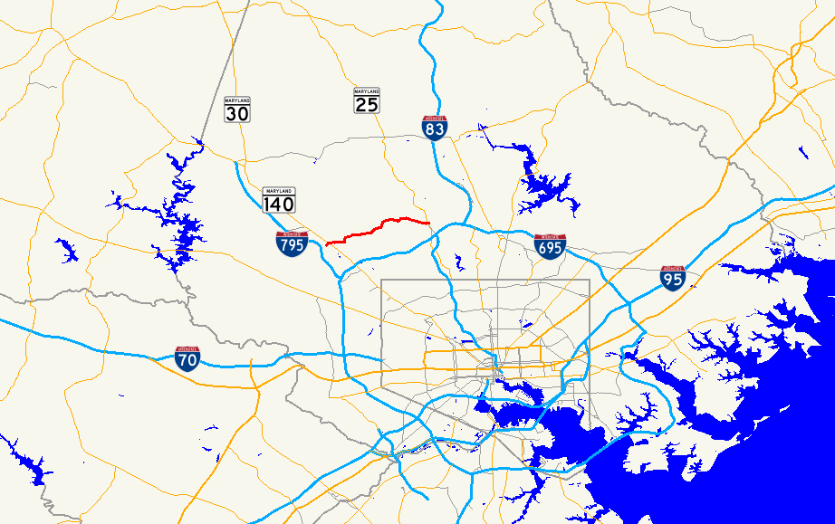 Map of Maryland Route 130